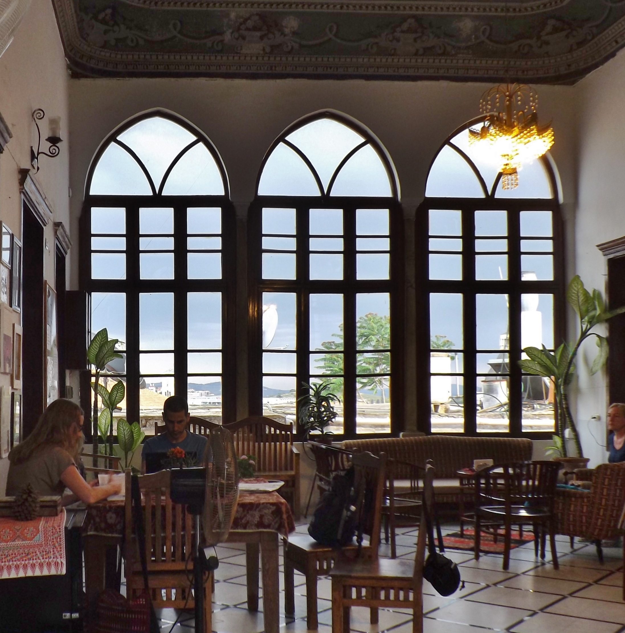 This 200 year-old guesthouse has an excellent reputation and is quite simply one of the best I've ever stayed at. Find out more at: Nazareth - the Galilee. Nazareth